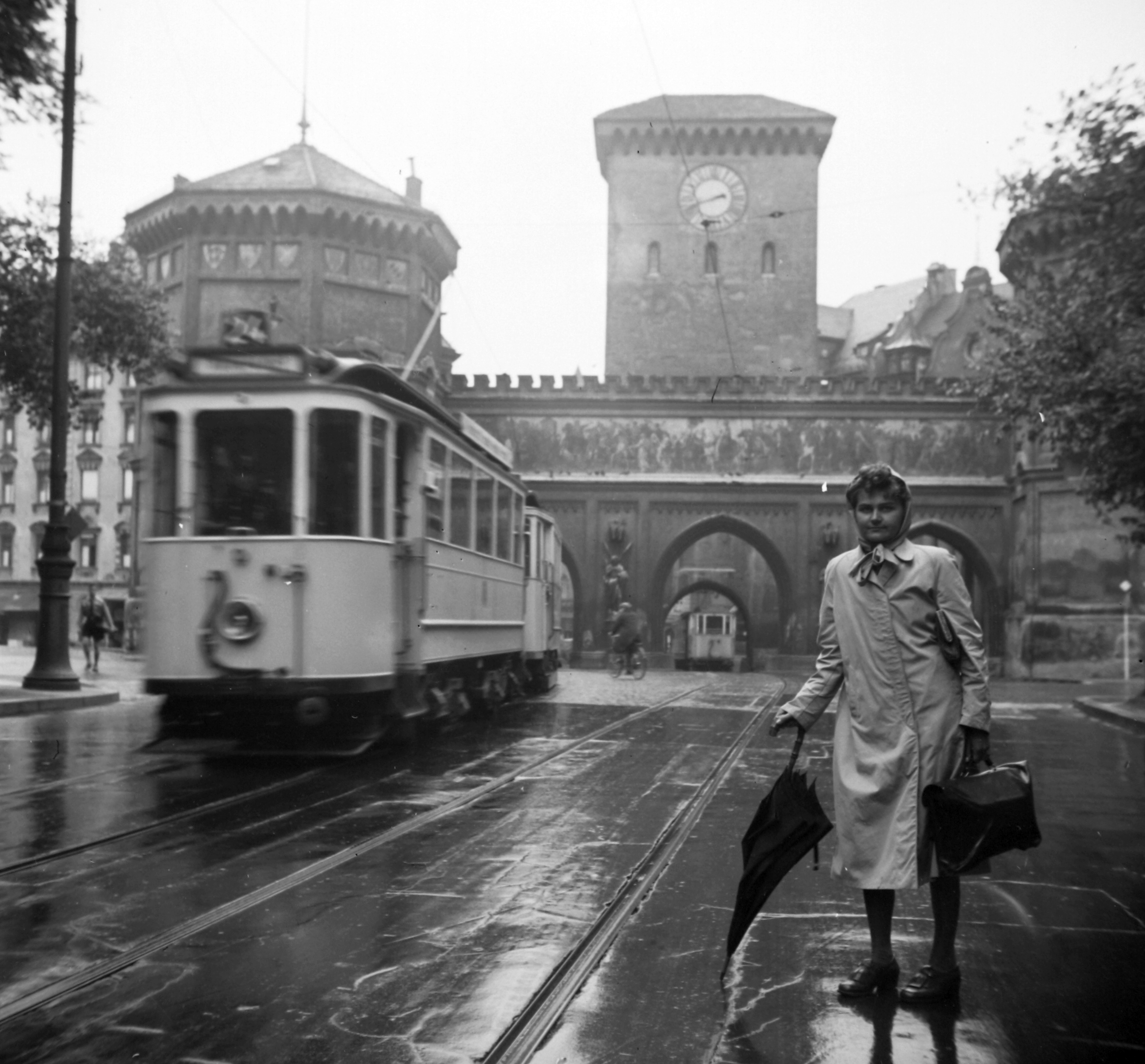 Location: Germany, Munich Tags: tram, umbrella, rain, raincoat